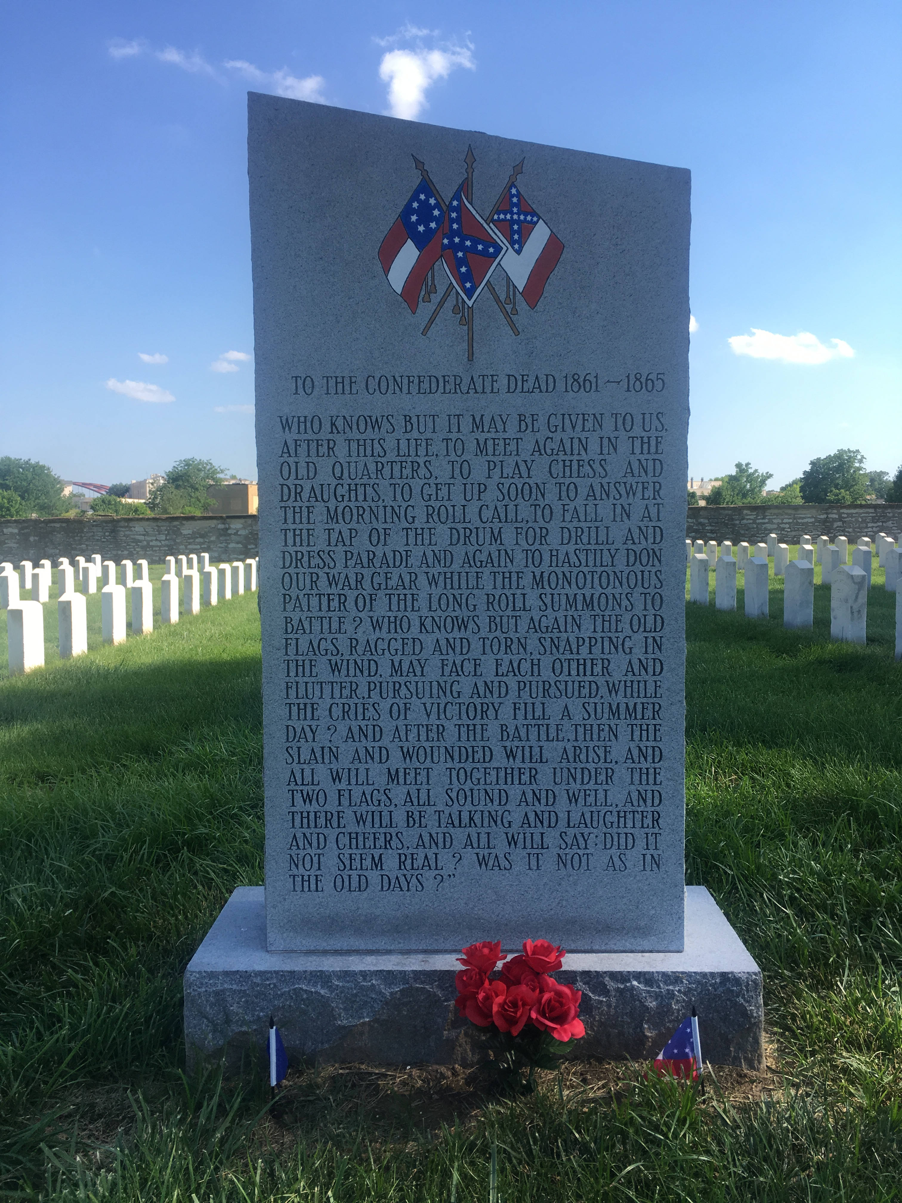 The front of the "Memorial to the Confederate Dead" located in Jefferson Barracks National Cemetery (section 66) in Saint Louis, Missouri. Text reads: To the Confederate Dead 1861-1865 Who knows but it may be given to us, after this life, to meet again in the old quarters, to play chess and draughts, to get up soon to answer the morning roll call, to fall in at the tap of the drum for drill and dress parade and again to hastily don out war gear while the monotonous patter of the long roll summons to battle? Who knows but again the old flags, ragged and torn, snapping in the wind, may face each other and flutter, pursuing and pursued, while the cries of victory fill a summer day? And after the battle, then the slain and wounded will arise, and all will meet together under the two flags, all sound and well, and there will be talking and laughter and cheers, and all will say: Did it not seem real? Was it not as in the old days?”